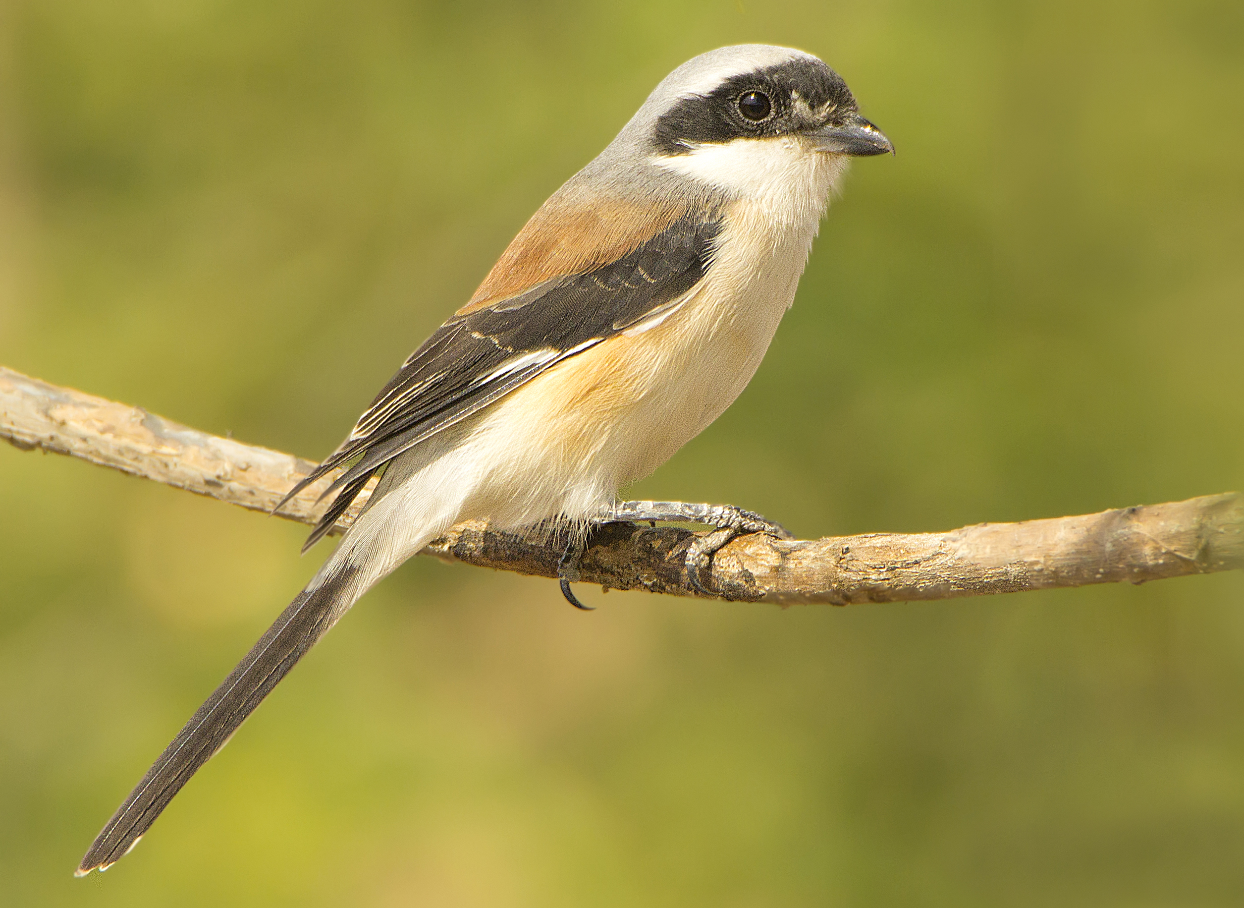 Photo Captured at Dahod, Gujarat